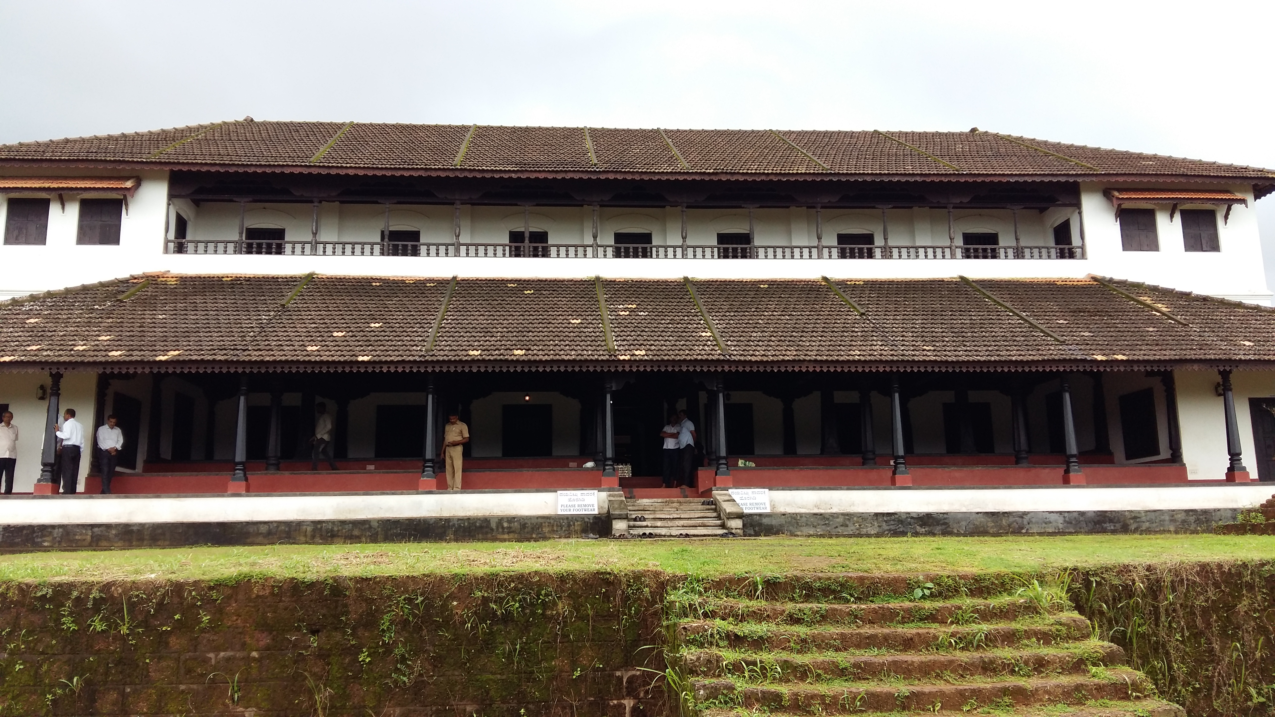 Guttu is a Bants Family center and a house at Mangalore Karnataka State